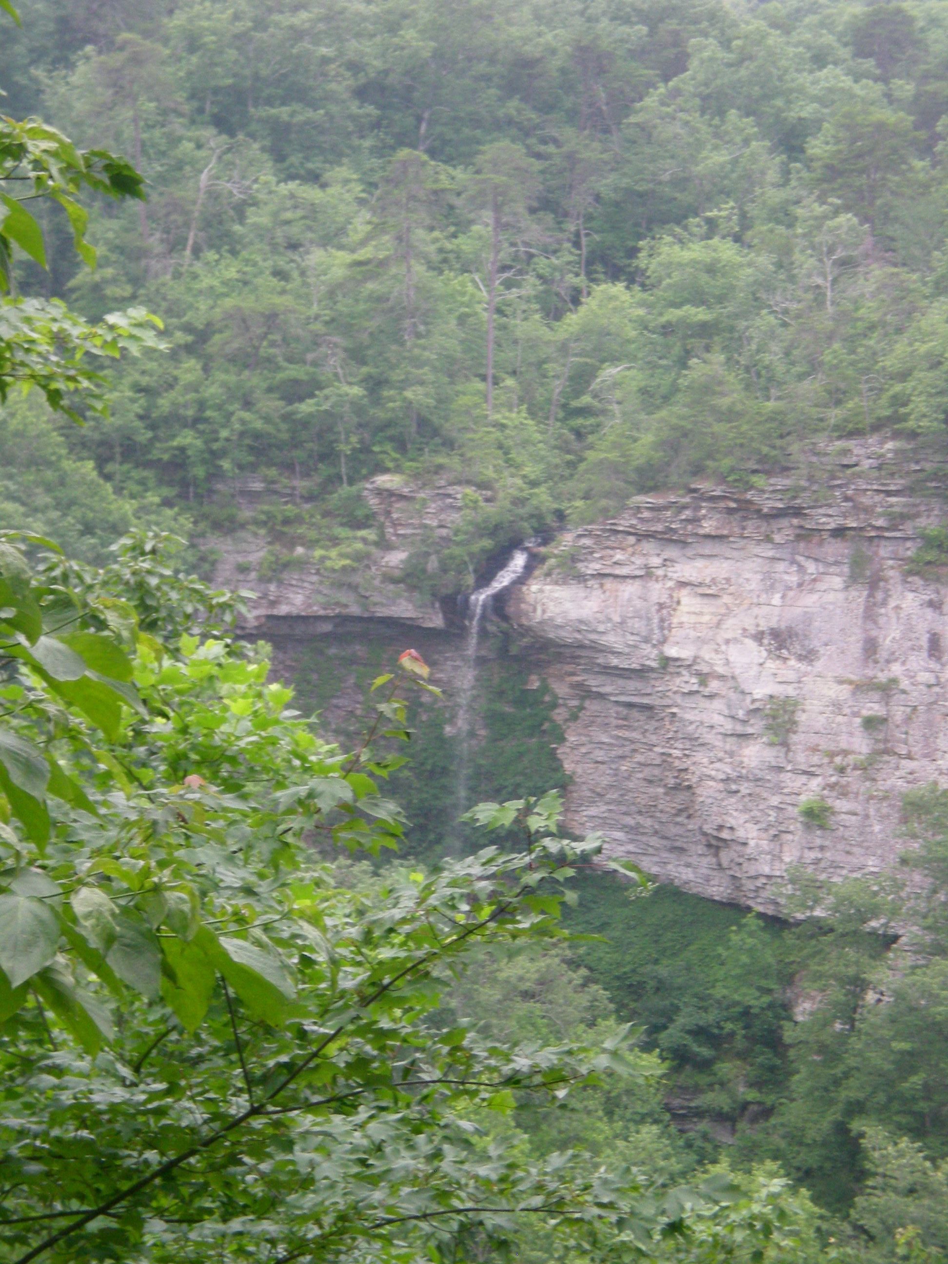 Grace's High Falls, Alabama's highest waterfall at 133 feet.